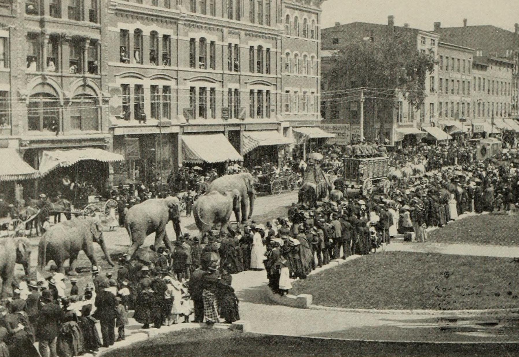 Elephants and performers of a circus are seen going past Holyoke City Hall sometime in the 1880s or early 1890s.